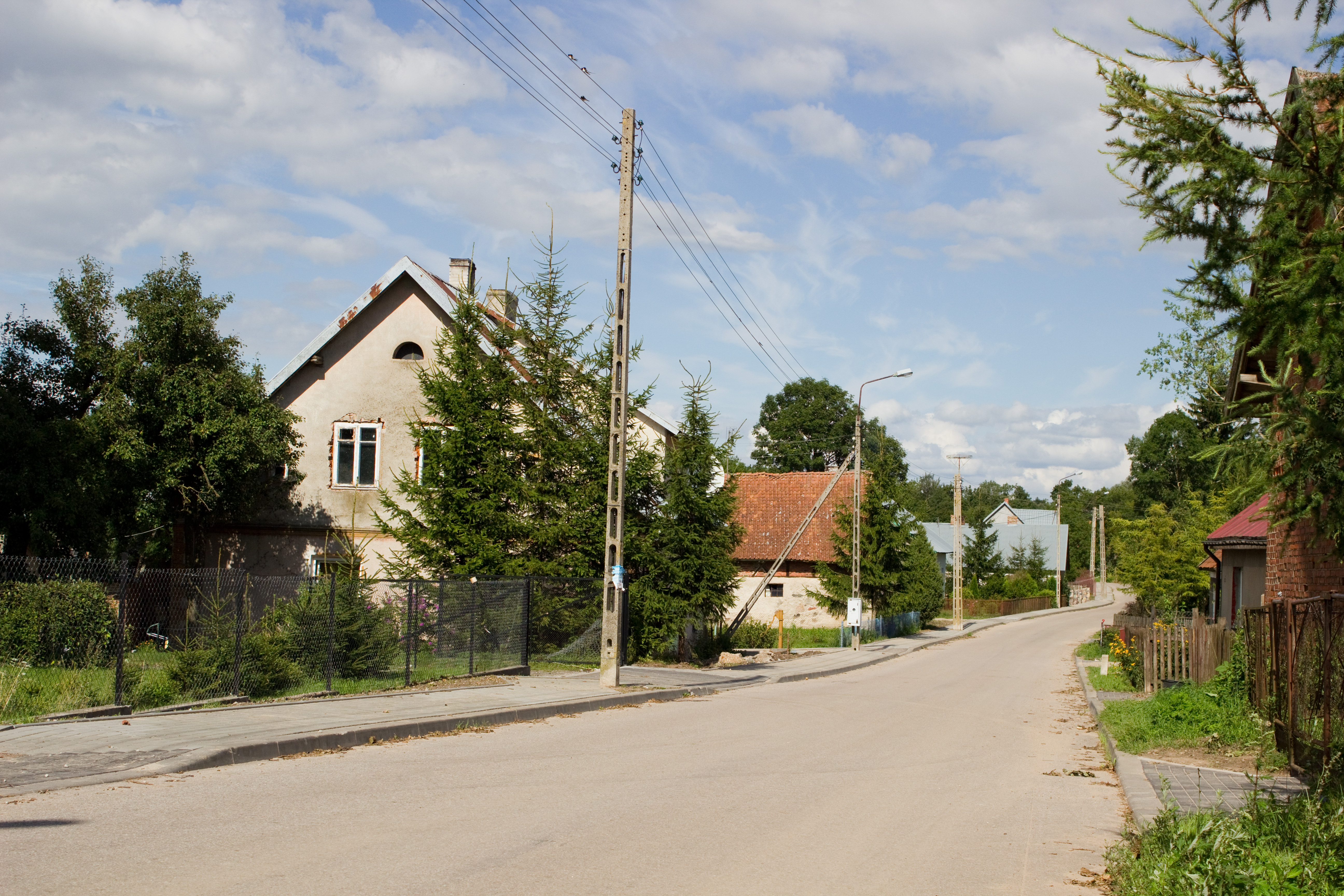 Krzyżewo, gmina Kalinowo, powiat ełcki, Warmian-Masurian Voivodeship